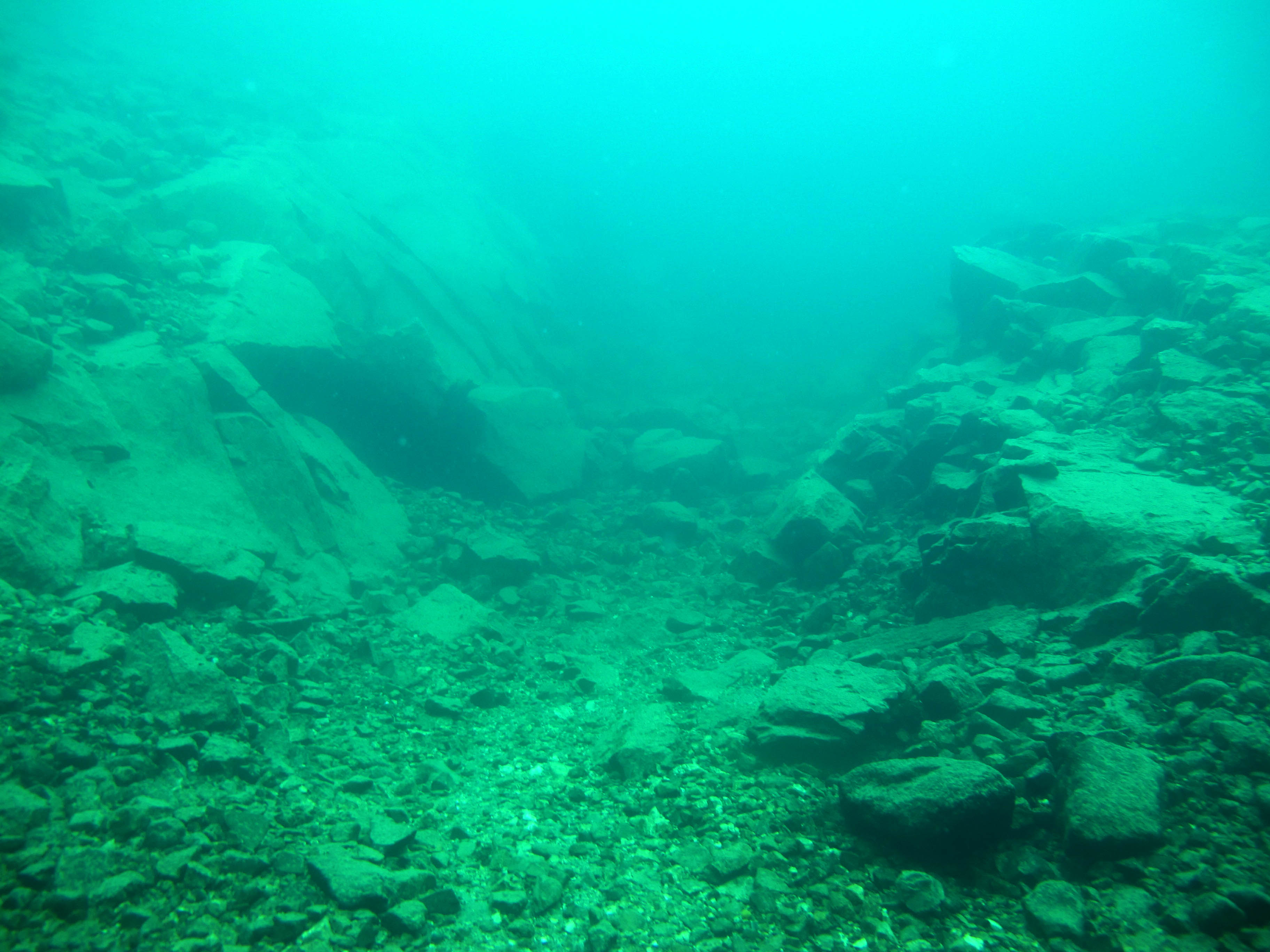 Picture of excavated channel between Ulevaavatnet and Staavatn lakes on Haukelifjell mountain plateau in Norway.